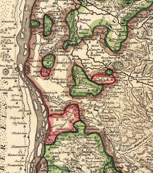 Section of a map of the Breisgau by Johann Baptist Homann showing (in pink) the Lordship of Heitersheim and the other small possessions of the Order of Malta (German: Malteserorden) in the Breisgau area. Published in 1718.